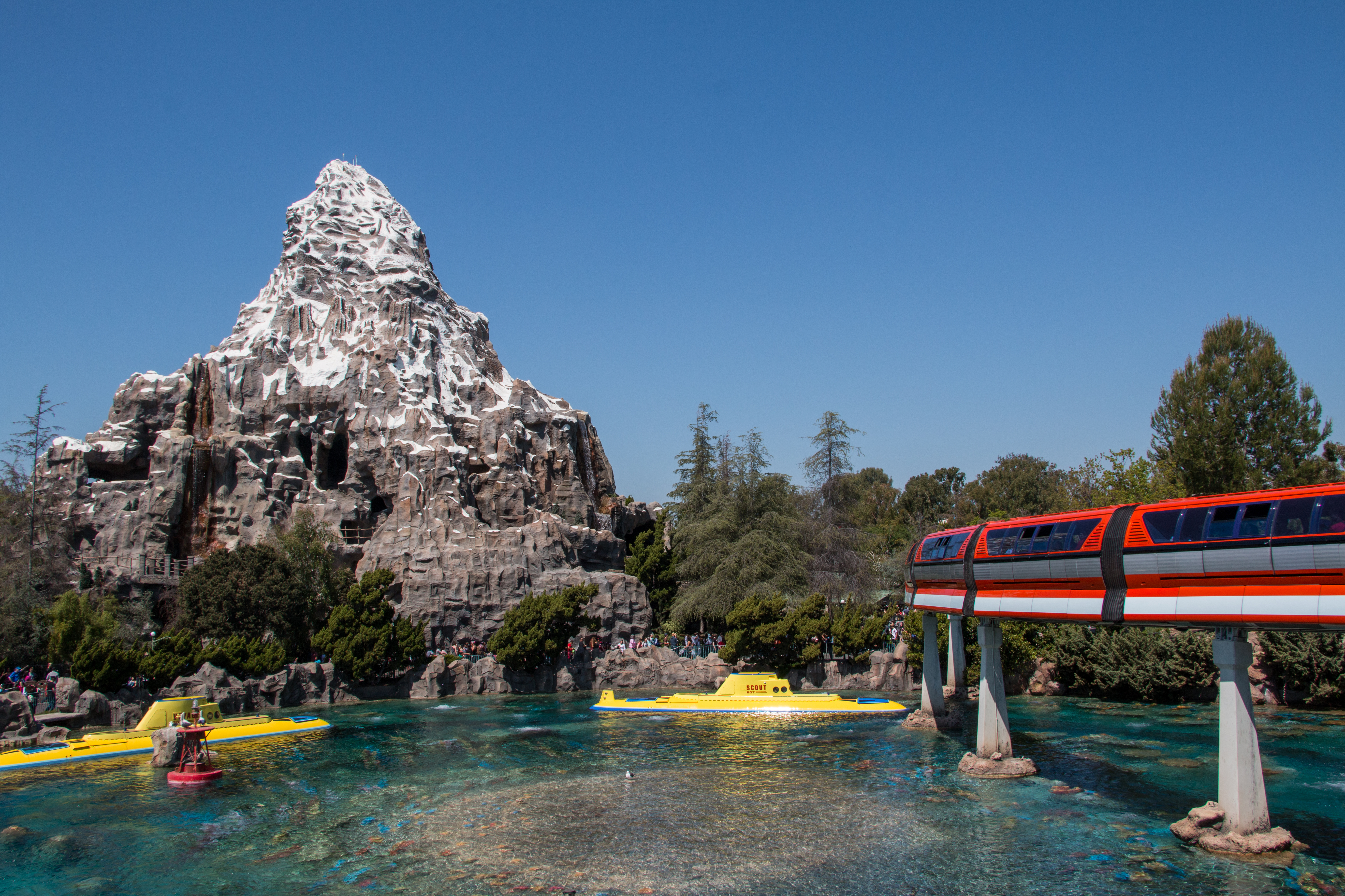 The Matterhorn (plus a passing monorail!) as seen from the Tomorrowland monorail station in Disneyland.